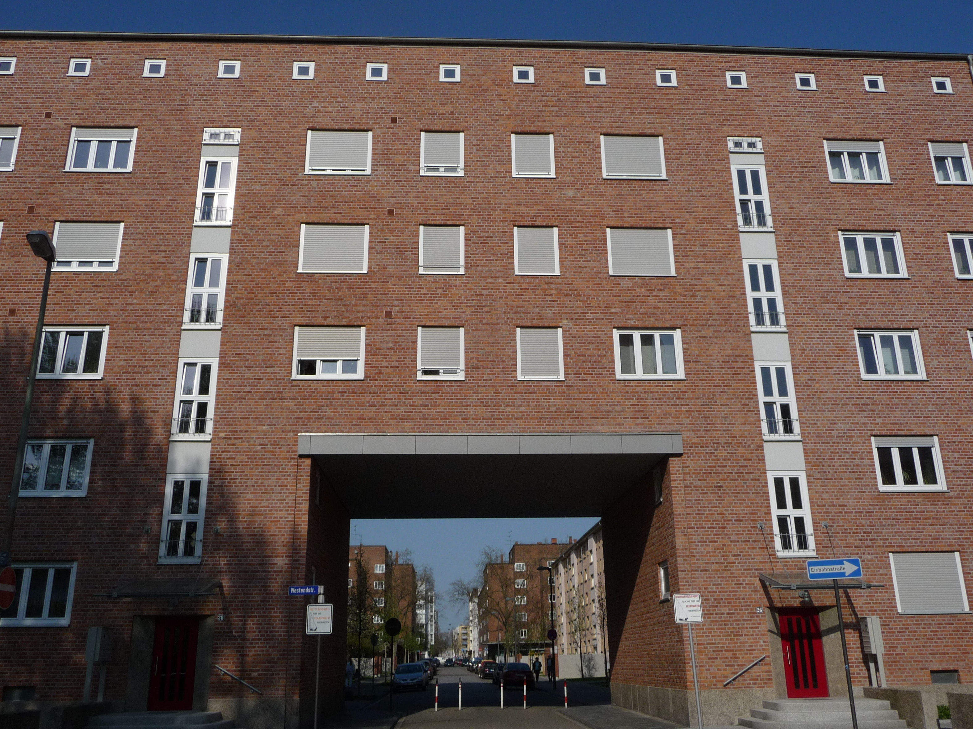 bulding in Ludwigshafen, Germany